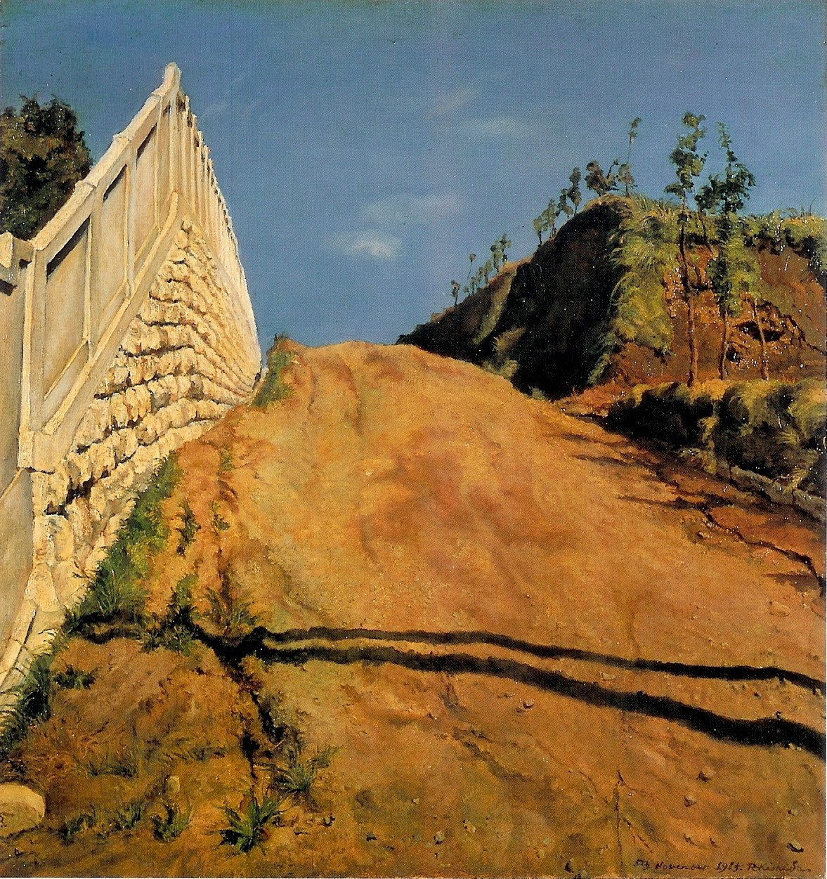 Kishida Ryûsei: cut through for a way 1915